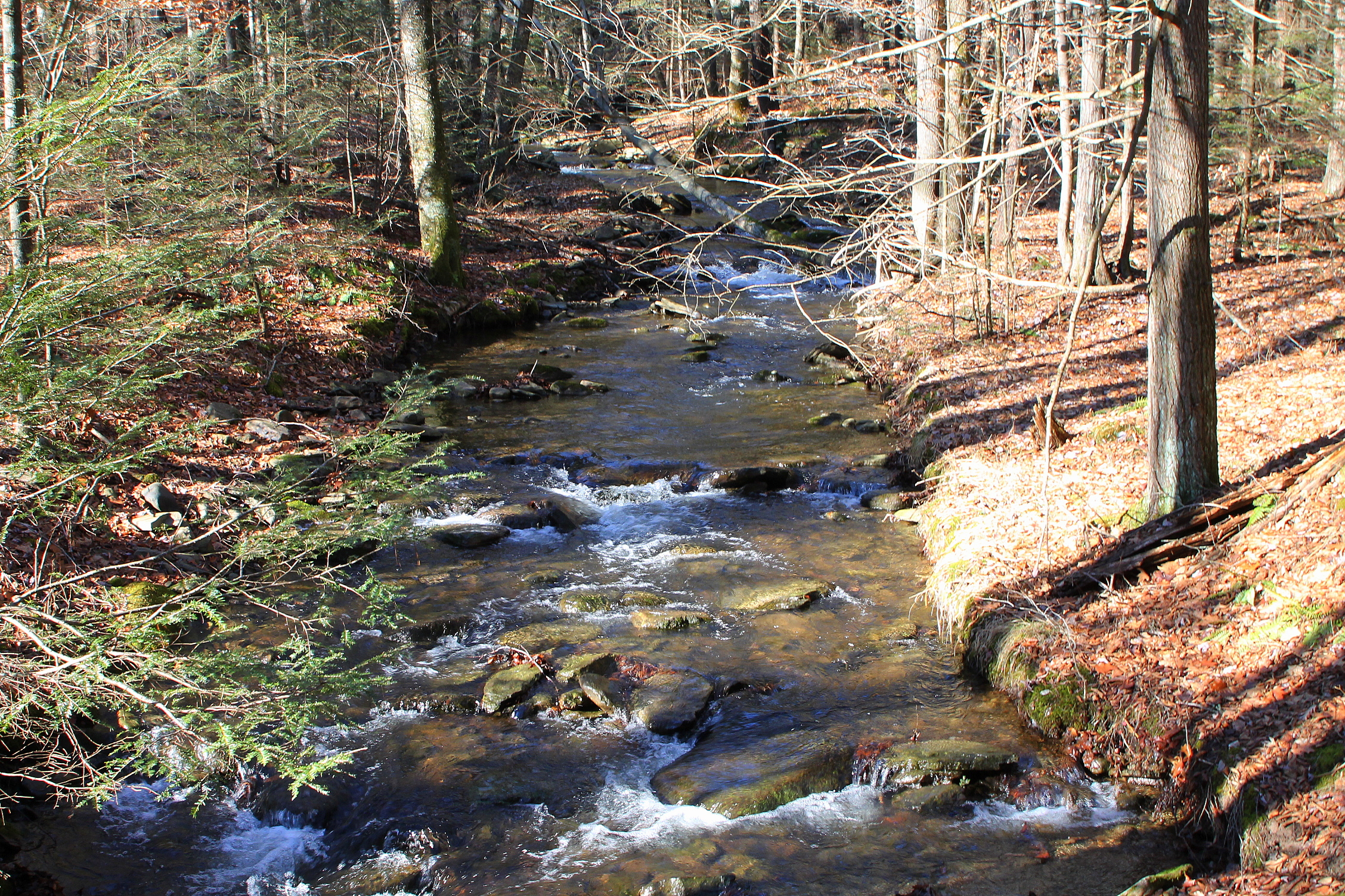 Lick Branch, a headwater tributary of Huntington Creek, looking upstream in its lower reaches